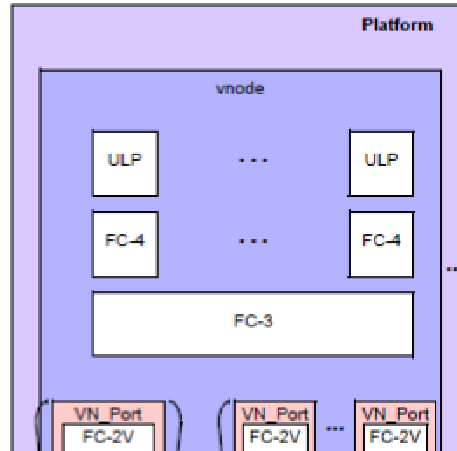 This graphic shows the logical port structure from the physical layer to the ULP.